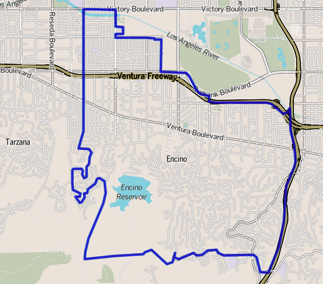 Map of Encino, California, as drawn by the Los Angeles Times Other information Boundary map as drawn by the Los Angeles Times on a CC-by-SA background. Note at bottom right of map on the L.A. Times website noted above says "CC-by-SA" (which gives permission to use the map). There is a link there to which explains the meaning thereof. The base map is credited to The Times spells all this out at